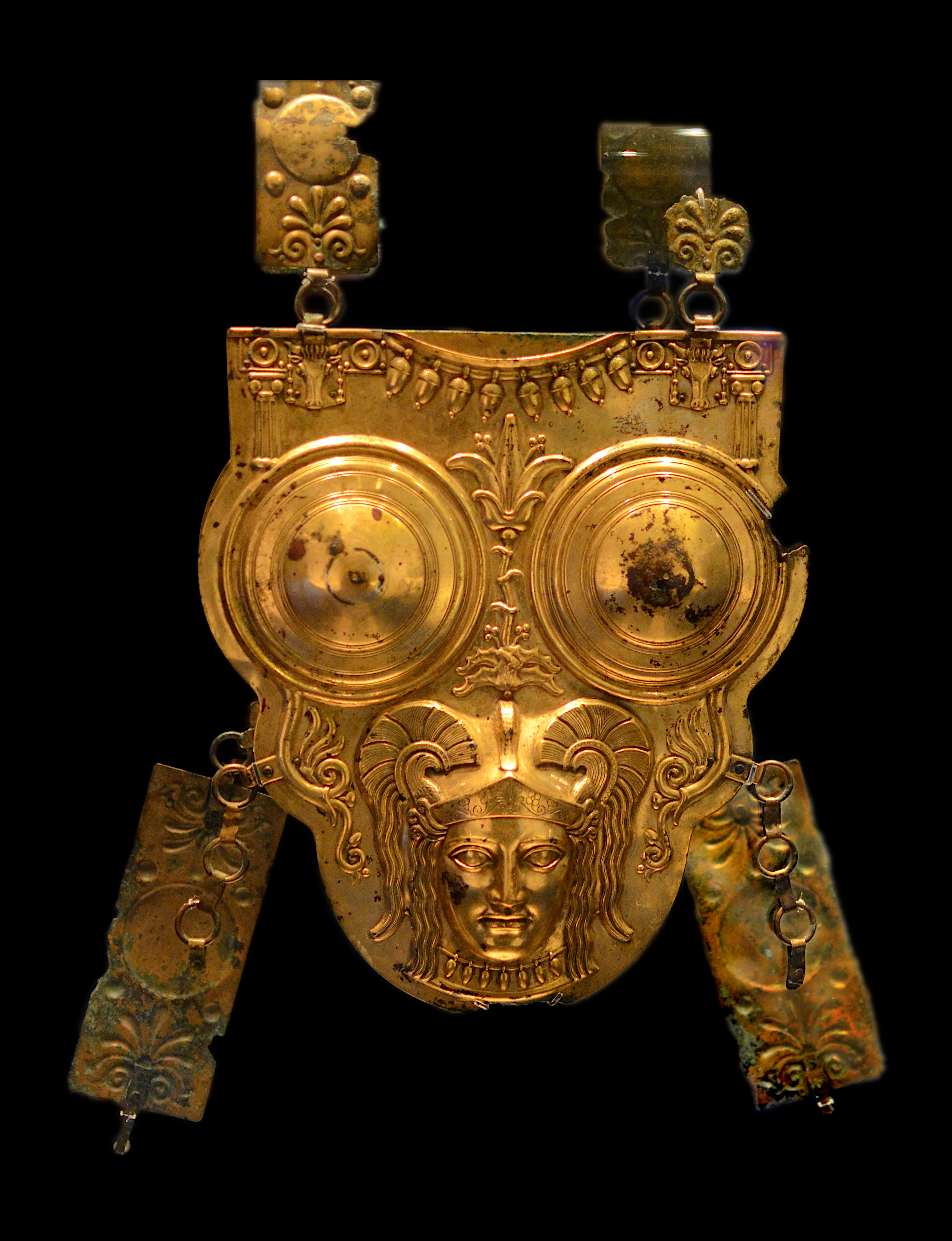 Front of the Ksour Essef cuirass